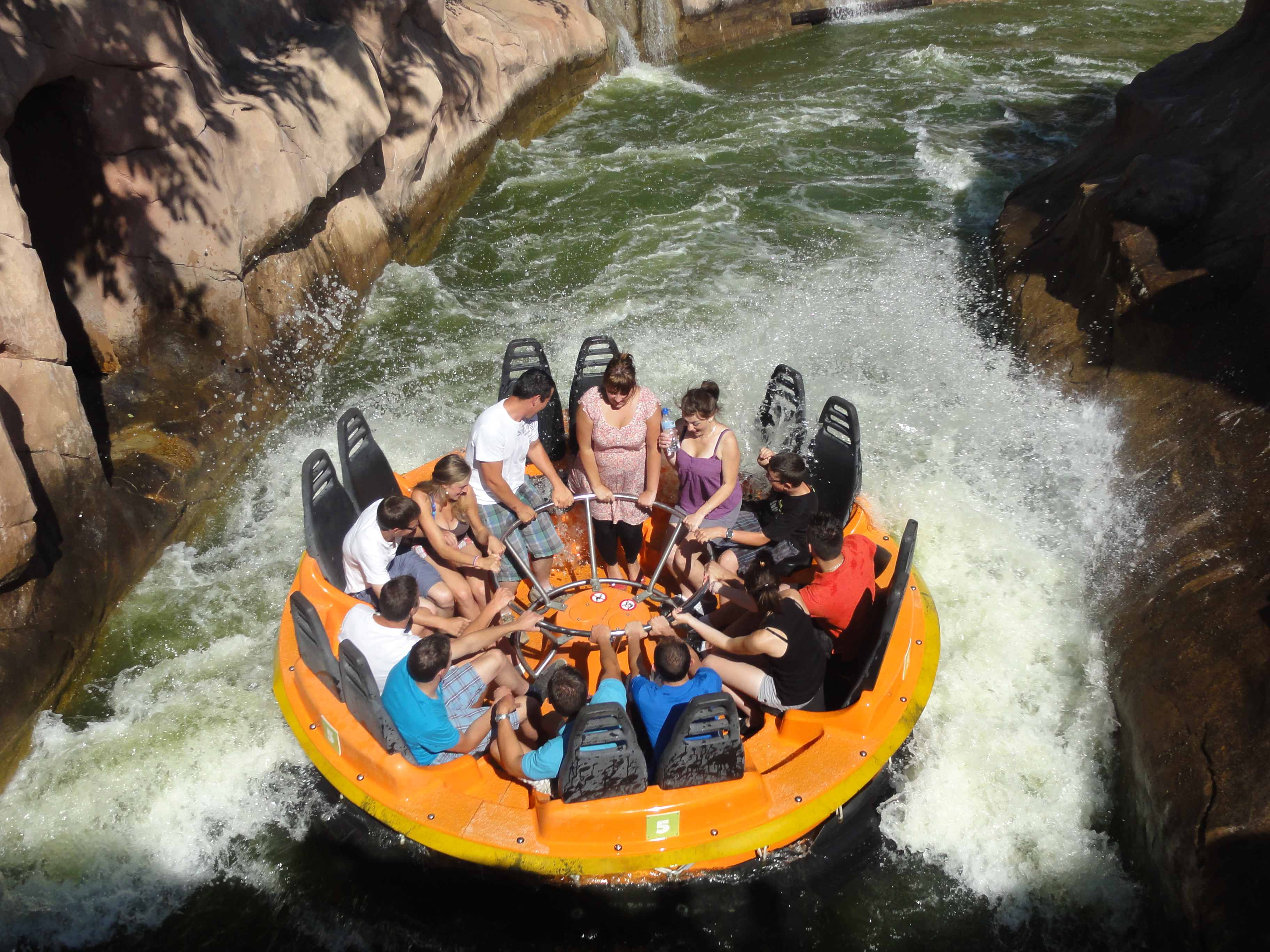 Radja River, Walibi Belgium, Belgium.